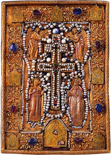 Icon from the shrine of Ivan Khvorostinin 1621 in Annunciation Cathedral in Moscow Крест с частью Животворящего Древа и камнем от Гроба Господня, изготовленный в 1621 г. (известен как «ковчег кн. Ивана Хворостинина») в Благовещенском соборе московского кремля.